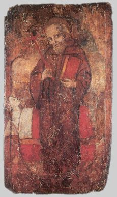 Italian painting with Saint Sylvester Guzzolini, benedictine monk.